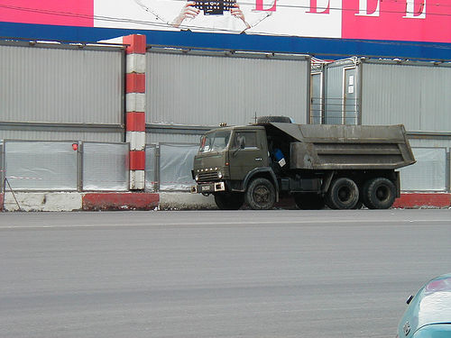 Truck on Tverskaya street, moscow, 2004. Photo taken by me.